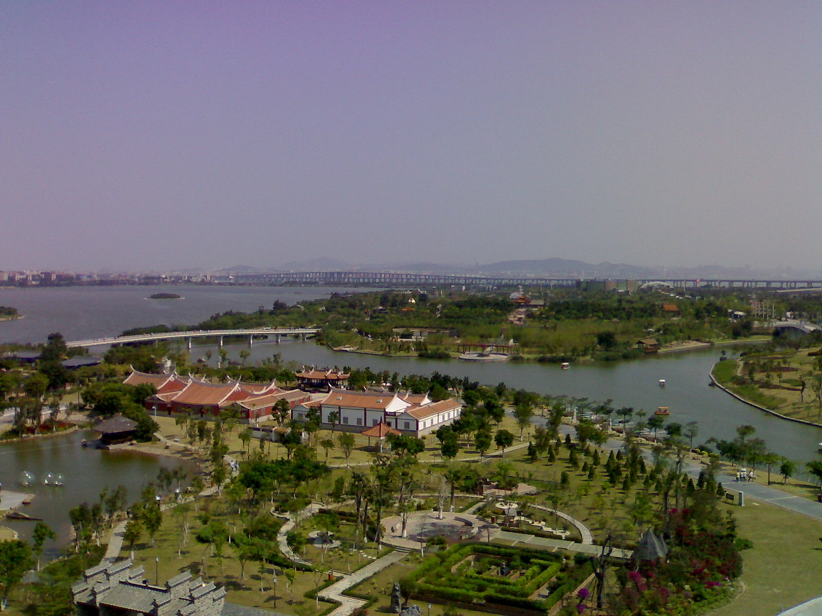 A view of Xiamen's Yuanlin Park and Xinglin Bay (杏林湾) from the Apricot Grove Pavilion (杏林阁, Xinglin Ge)